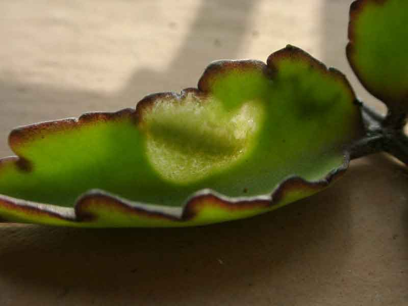 This image shows a caterpillar of Red Pierrot Talicada nyseus, embedded in a leaf of the host-plant Kalanchoe by use of back-lighting. This image has been shot by Mr Nandan Kalbag (ntkalbag_at_hotmail,com) and donated to Wikimedia Commons for use with the Indian butterflies wikibase in Wikipedia.See his web site at :- The image has been uploaded by Nature Loader with specific permission of Mr Nandan Kalbag.